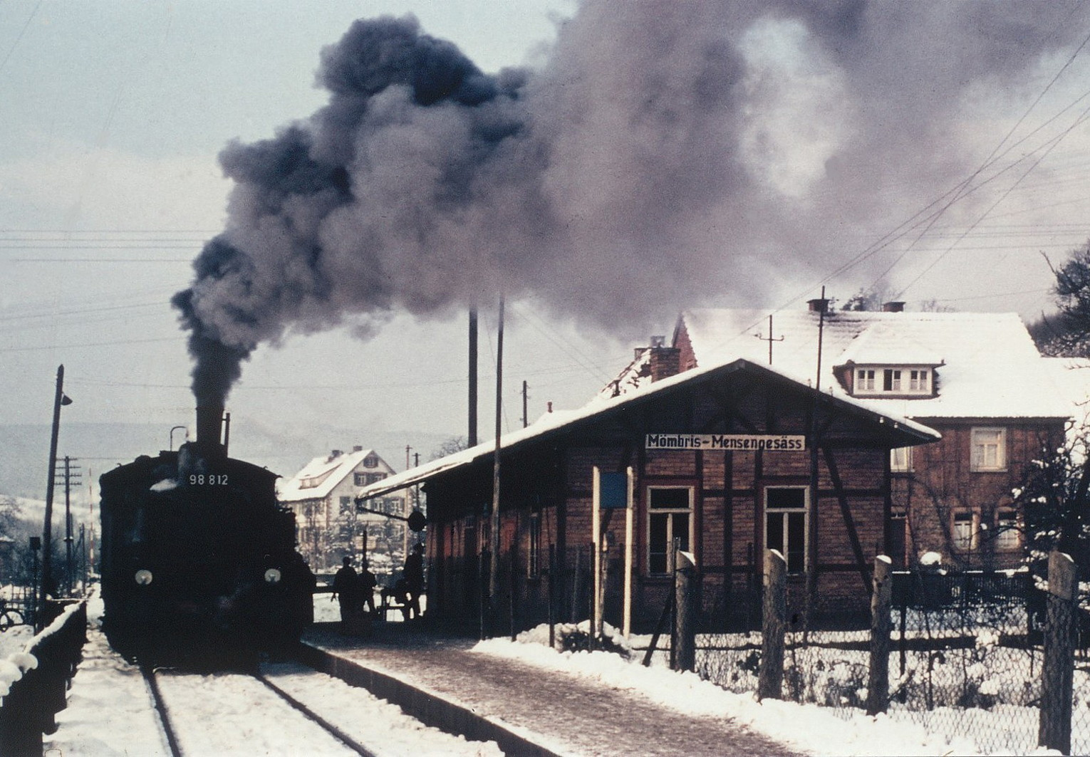 Arrival of the train from Kahl on the Main river at the railway station Mömbris-Mensengesäß. Photo taken circa 1952